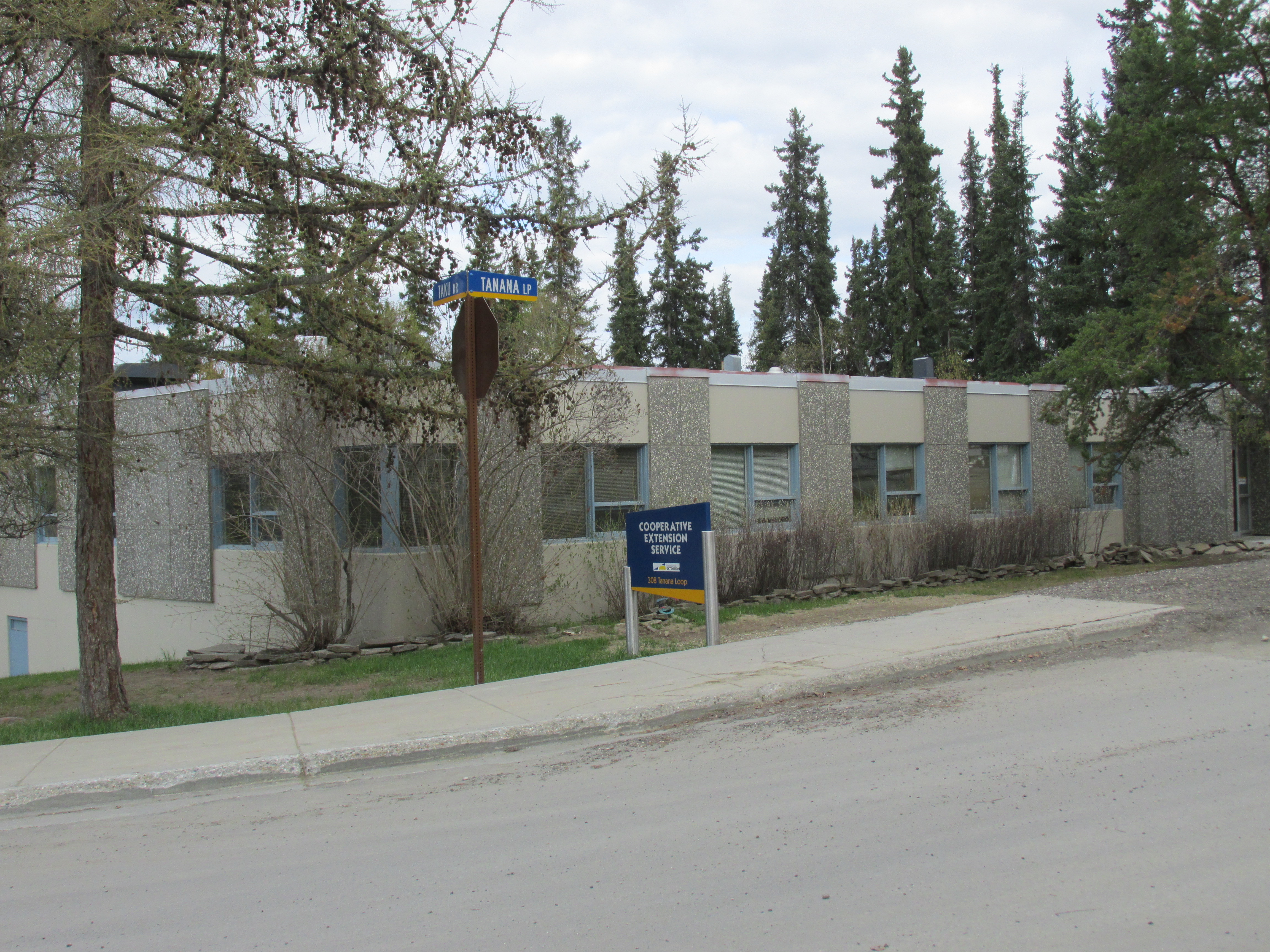 The headquarters for the Cooperative Extension Service at the University of Alaska Fairbanks. The building was constructed in 1962, according the cornerstone found at the bottom right corner (not visible in this photo)